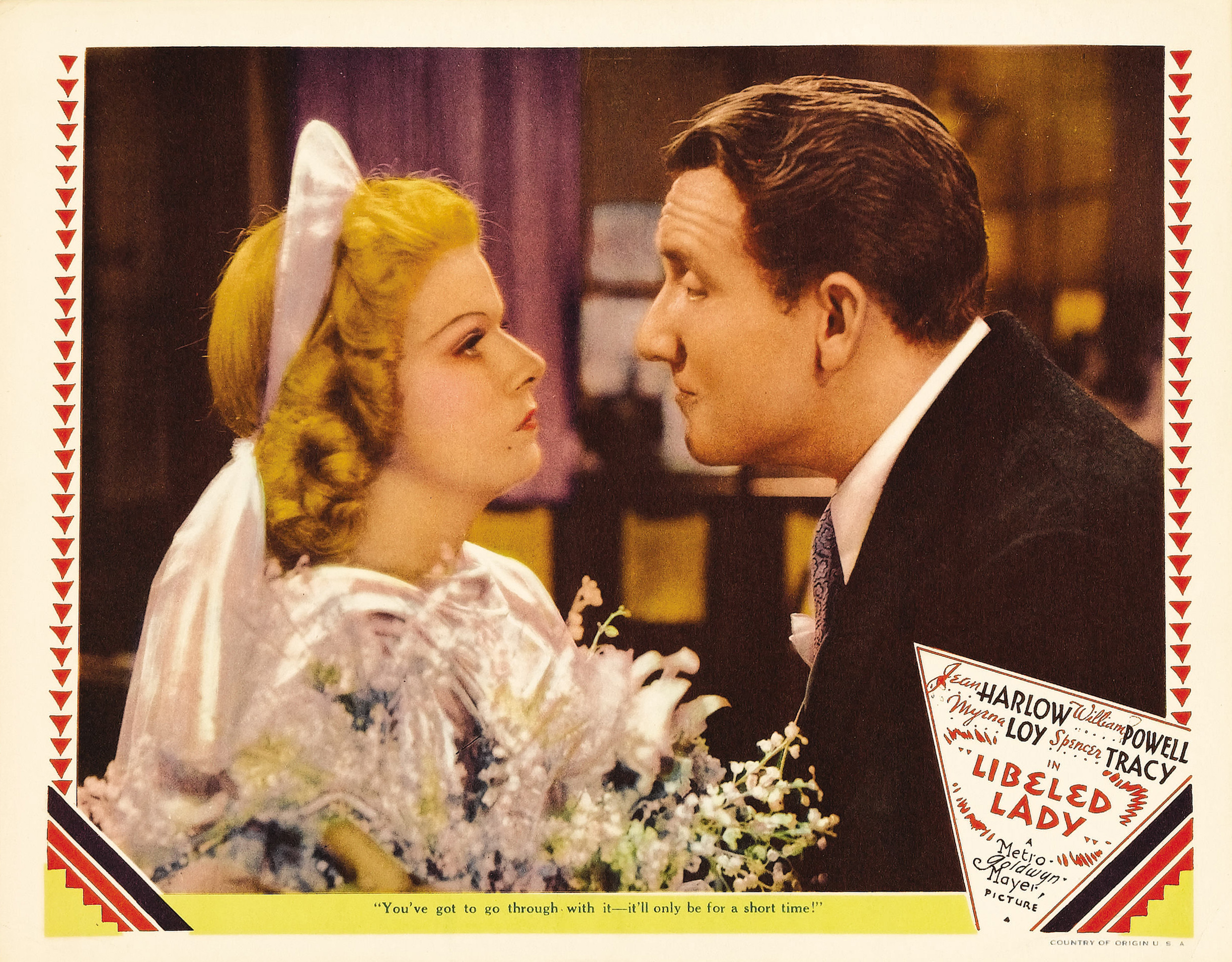 Poster for the 1936 MGM film Libeled Lady